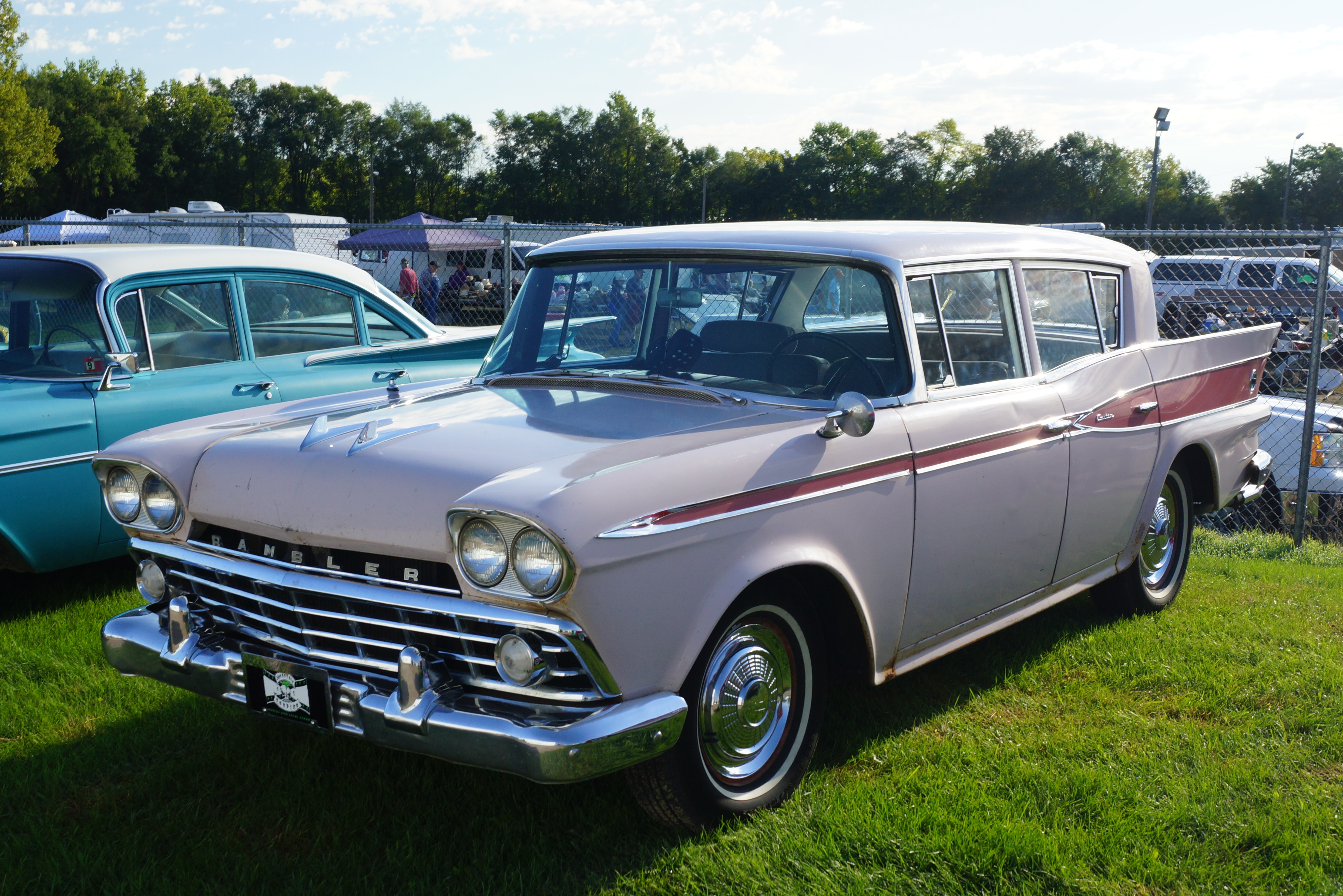 Auto Restorers Club of Southern Minnesota 40th Annual Car Show & Swap Meet Nicollet County Fairgrounds St. Peter, Minnesota September 2016 Click here for more car pictures at my Flickr site.